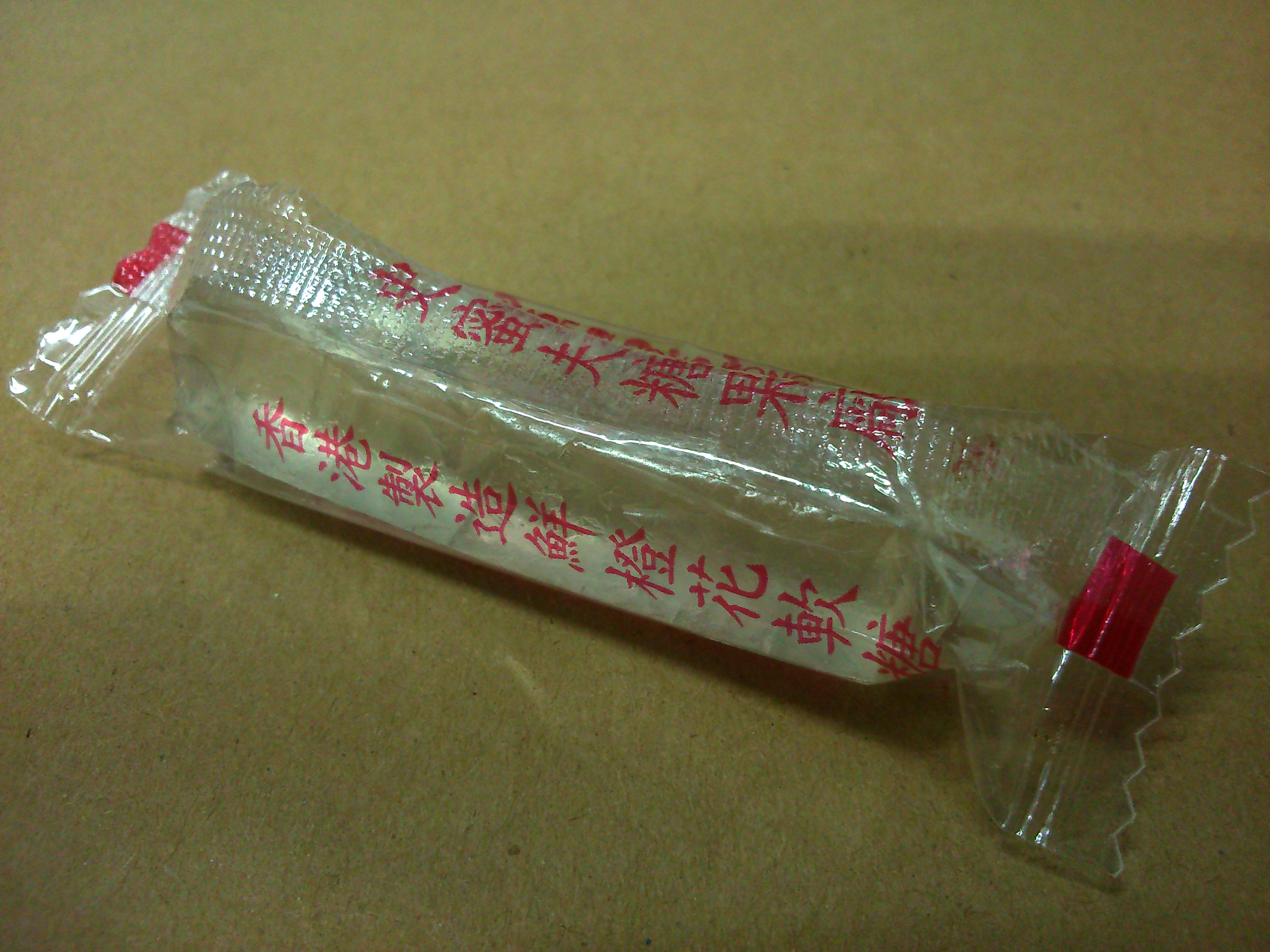 Smith's orange jelly candy.